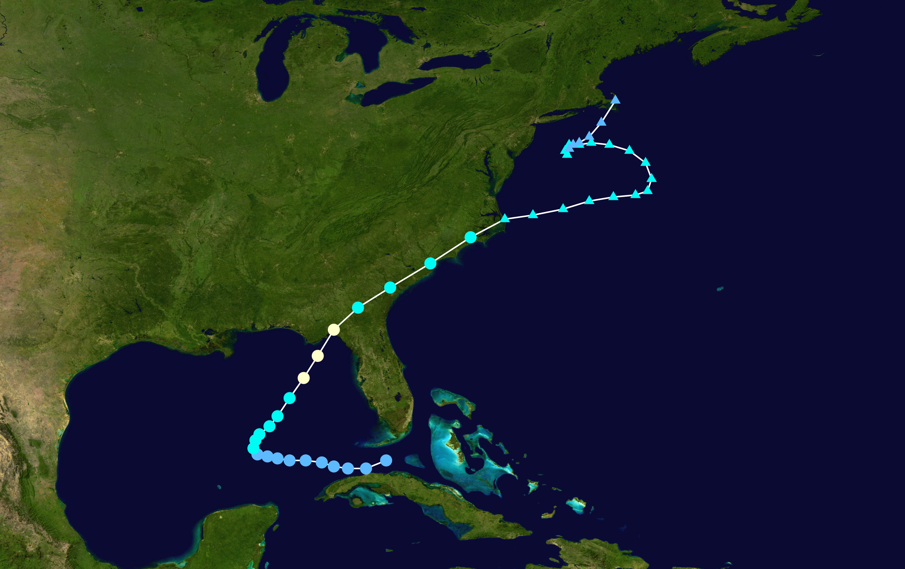 Track map of Hurricane Hermine of the 2016 Atlantic hurricane season. The points show the location of the storm at 6-hour intervals. The colour represents the storm's maximum sustained wind speeds as classified in the Saffir–Simpson scale (see below), and the shape of the data points represent the nature of the storm, according to the legend below. Saffir–Simpson scale Tropical depression≤38 mph≤62 km/h Category 3111–129 mph178–208 km/h Tropical storm39–73 mph63–118 km/h Category 4130–156 mph209–251 km/h Category 174–95 mph119–153 km/h Category 5≥157 mph≥252 km/h Category 296–110 mph154–177 km/h Unknown Storm type Tropical cyclone Subtropical cyclone Extratropical cyclone / Remnant low / Tropical disturbance / Monsoon depression